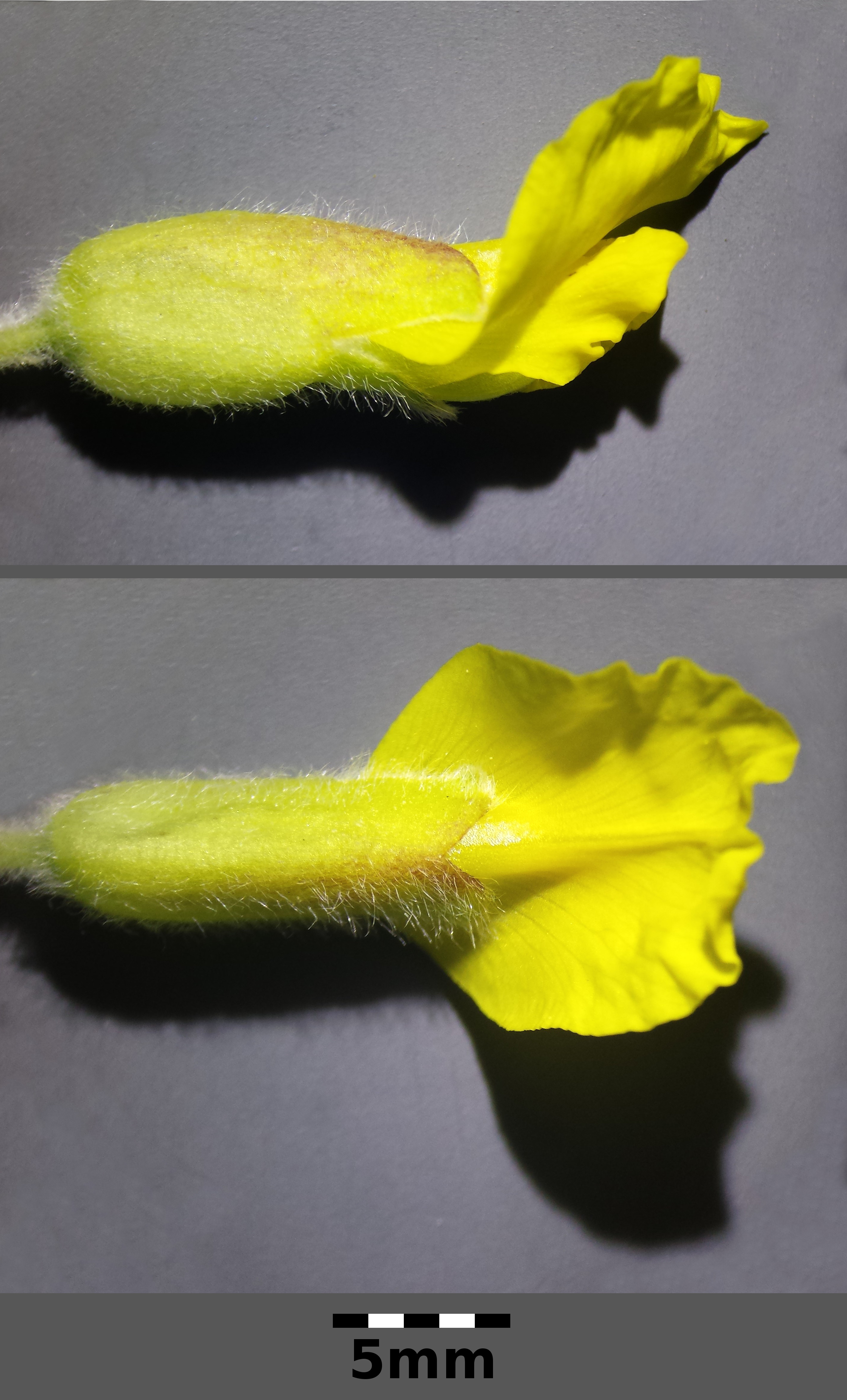 Flower, bald banner, calyx with distant hairs Taxonym: Chamaecytisus supinus ss Fischer et al. EfÖLS 2008 ISBN 978-3-85474-187-9 Location: Steinberg near Niederhollabrunn, district Korneuburg, Lower Austria - ca. 375 m a.s.l. Habitat: semi-dry grassland